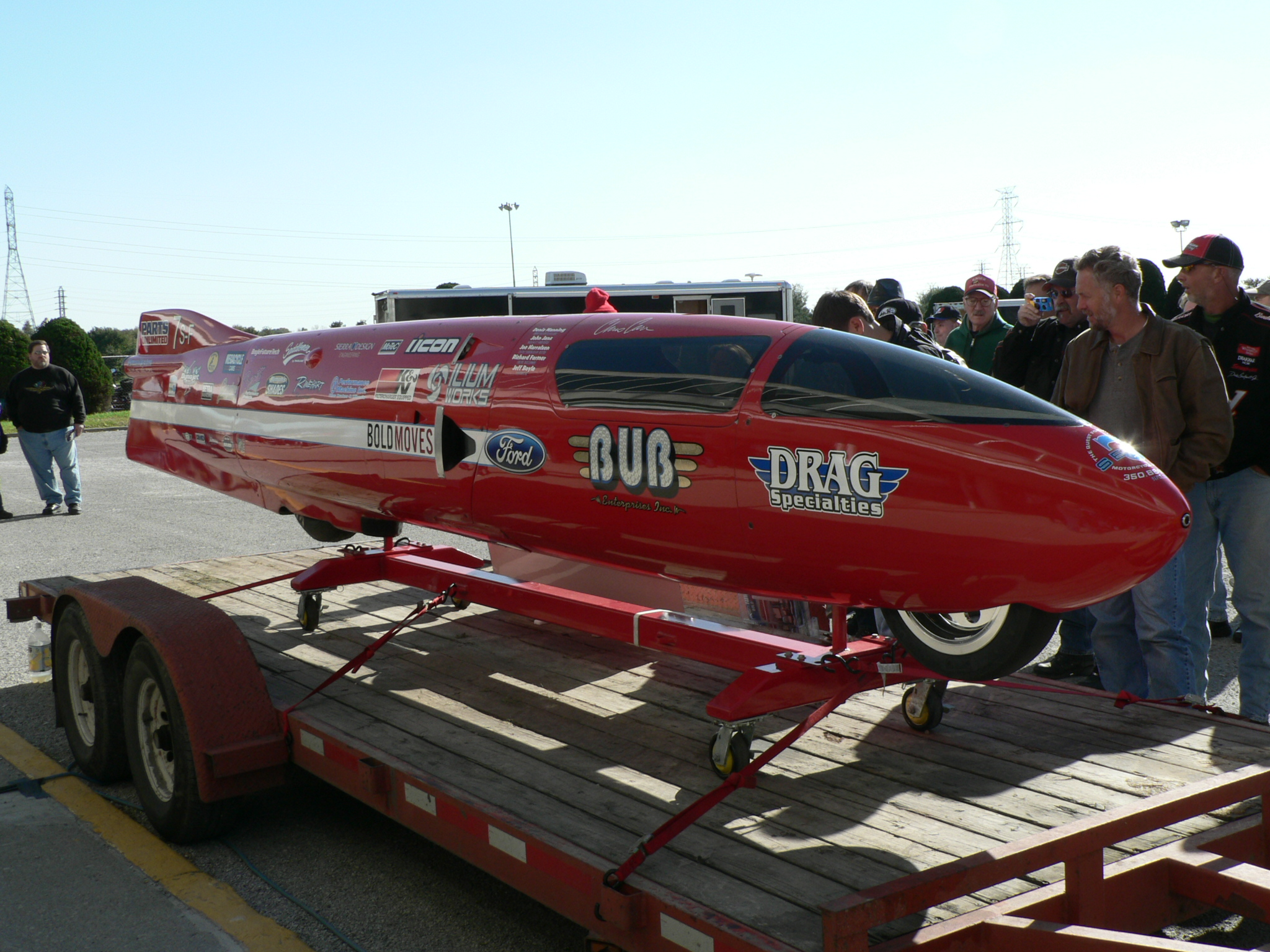 The fastest thing on 2 wheels. Totally custom made streamliner bike. The bike topped off at 350 mph at Bonneville this year.